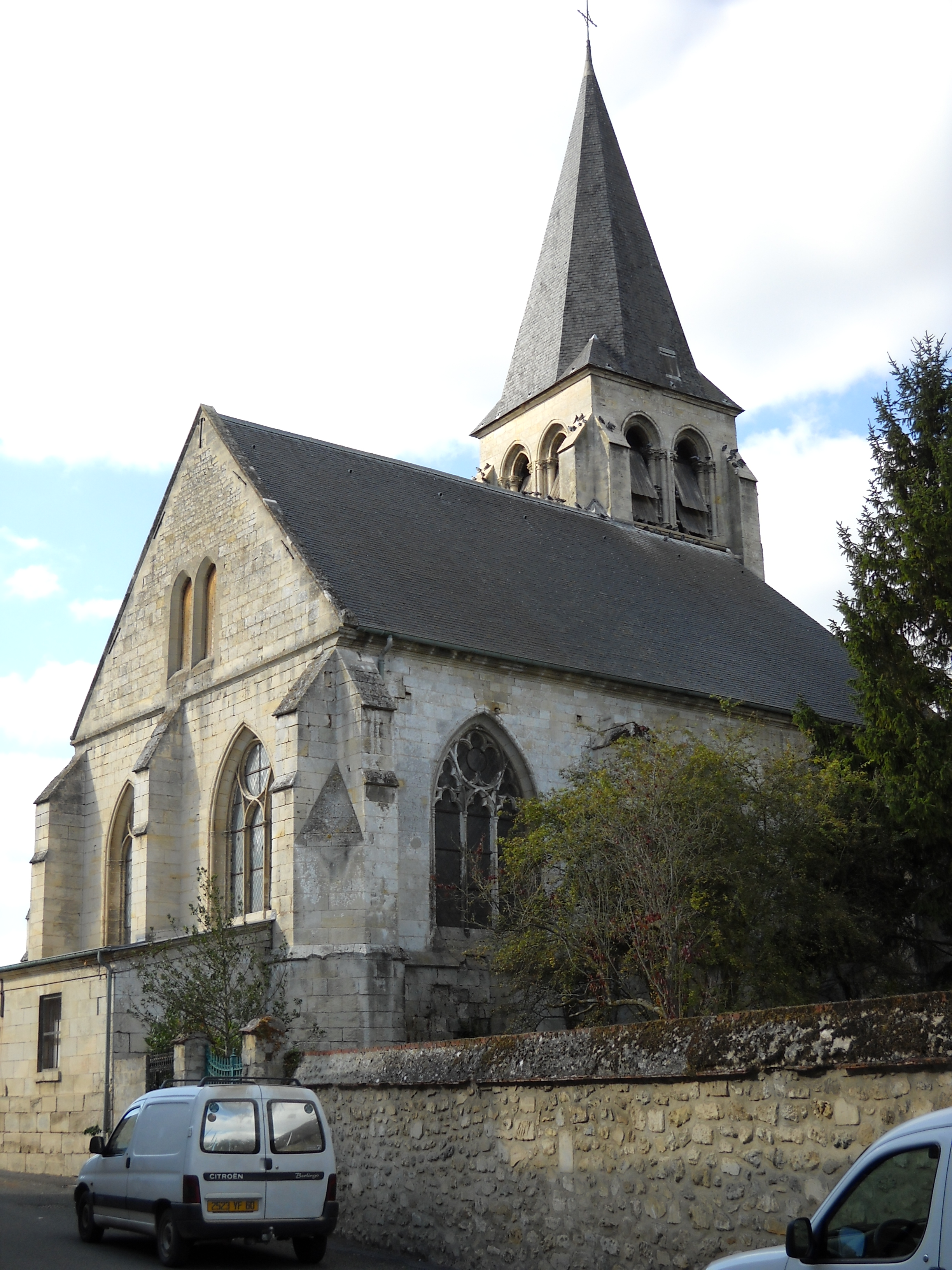 The church of Neuilly-sous-Clermont, Oise, France.